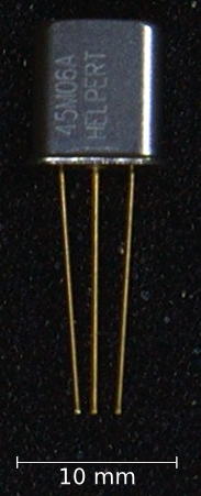 Crystal filter for fcenter=45 Mhz and with B3dB=12 KHz, Z=300 Ohm and Cp=8pF.